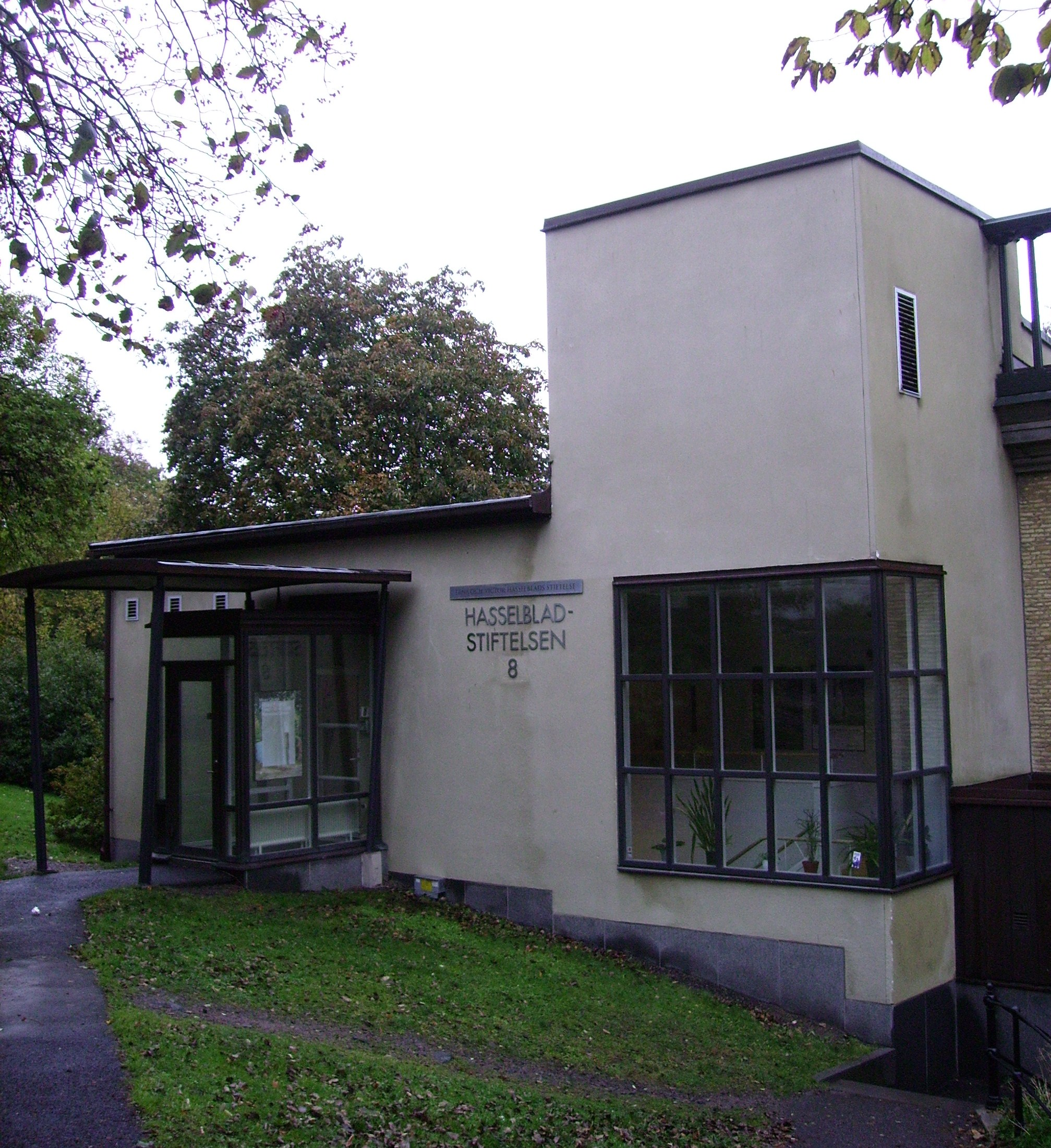 Picture of the house which contains Hasselbladstiftelsen (Hasselblad Foundation) on 8 Ekmansgatan, Gothenburg